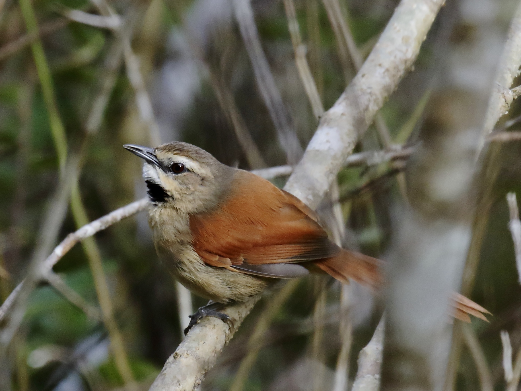 Ochre-cheeked Spinetail; Poções, Bahia, Brazil